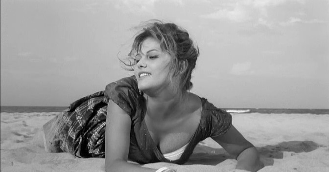 screenshot from the Italian film La ragazza con la valigia (1961)